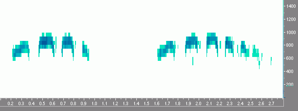 Little brown dove sonogram. Call recorded in Dindigul, in 2006.